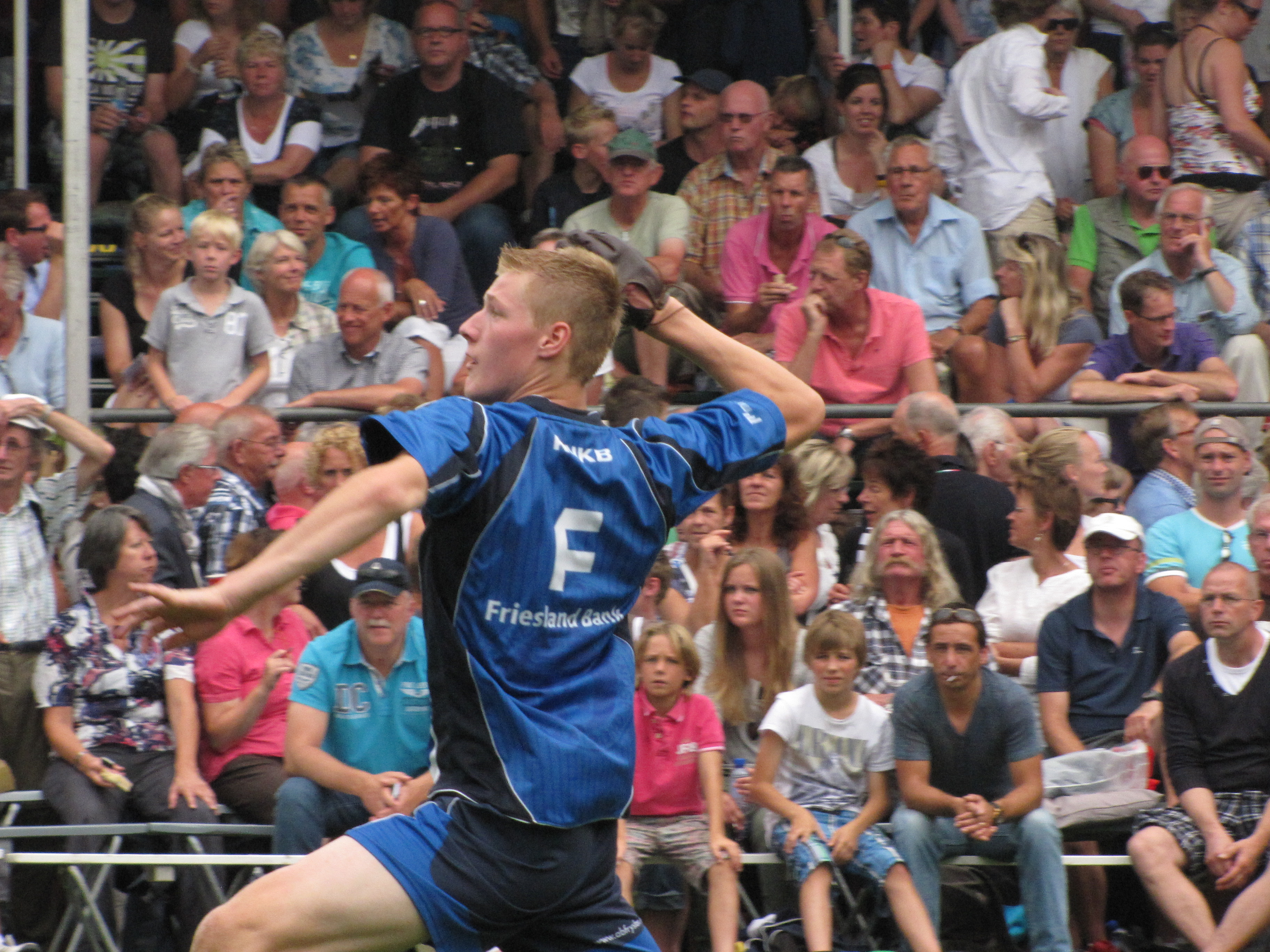 Hendrik Kootstra in action on the PC of 2011Frysk: Hendrik Kootstra yn aksje op de PC fan 2011